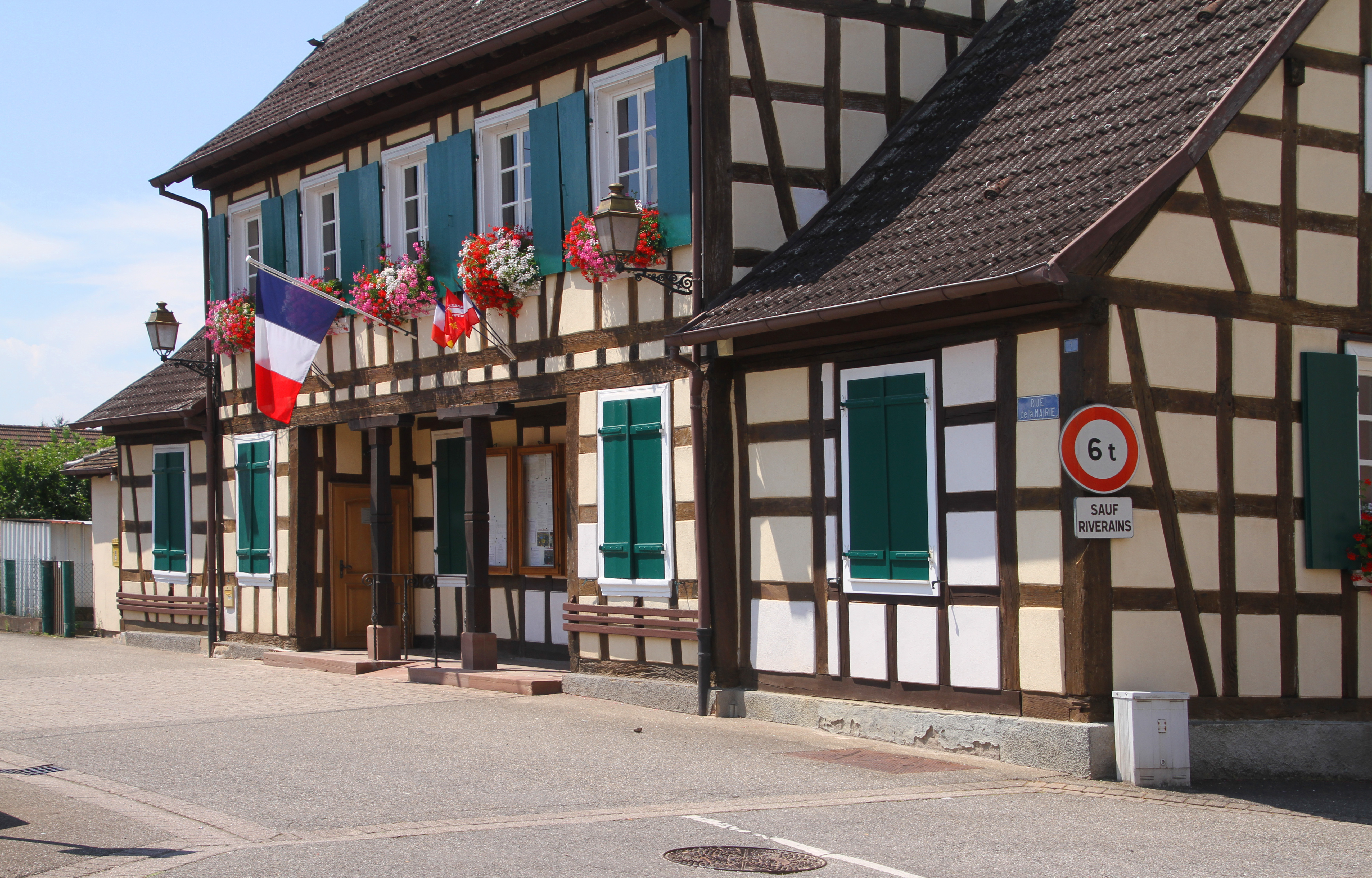 City hall of Rountzenheim.